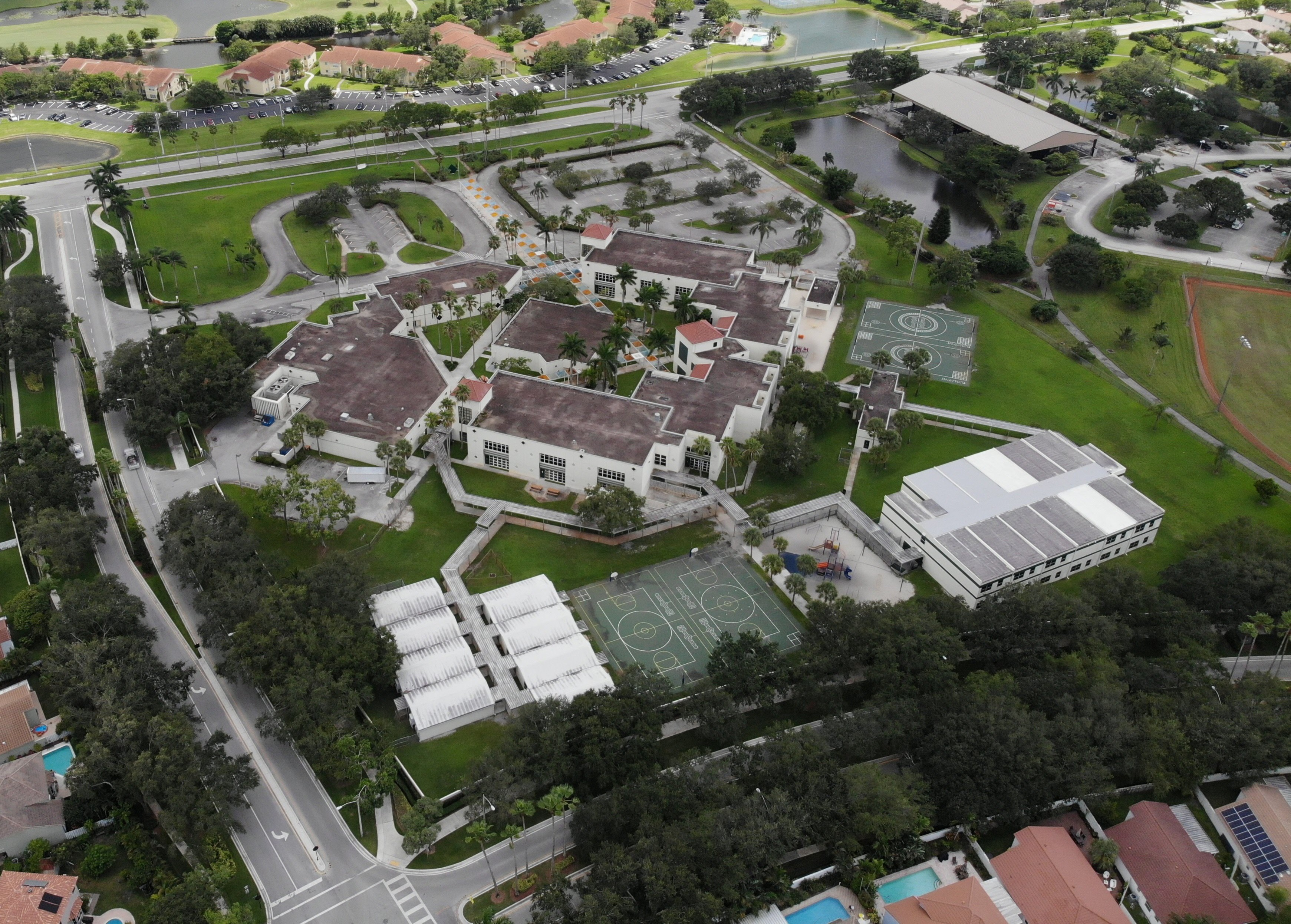 An aerial shot of one of Broward County Public Schools' elementary schools, Sawgrass Elementary in Sunrise, Florida.